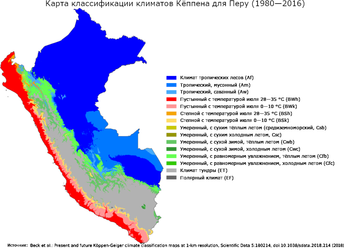 Köppen–Geiger climate classification map for Peru